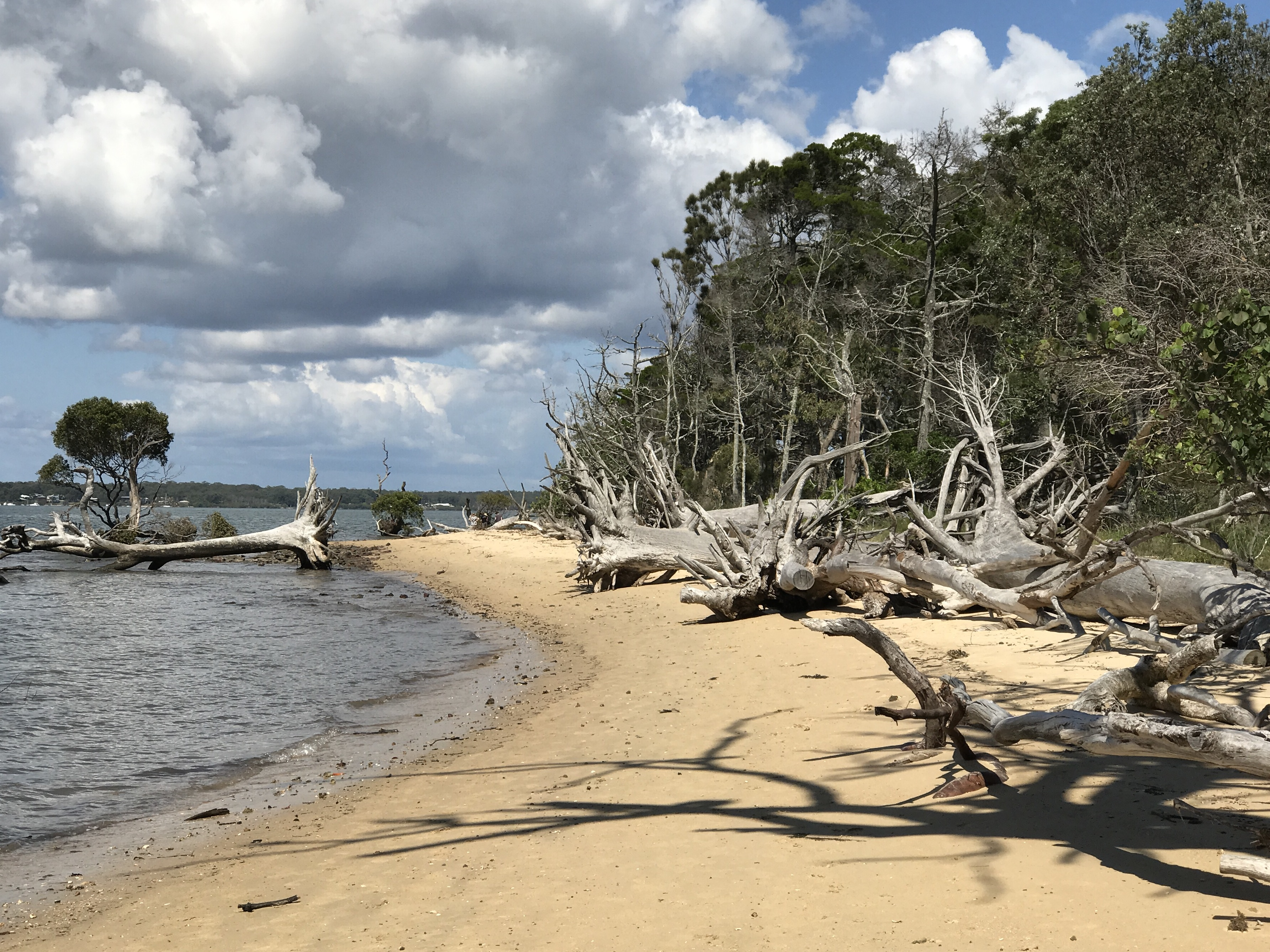 Norfolk Beach, Coochiemudlo Island, north eastern tip of the island